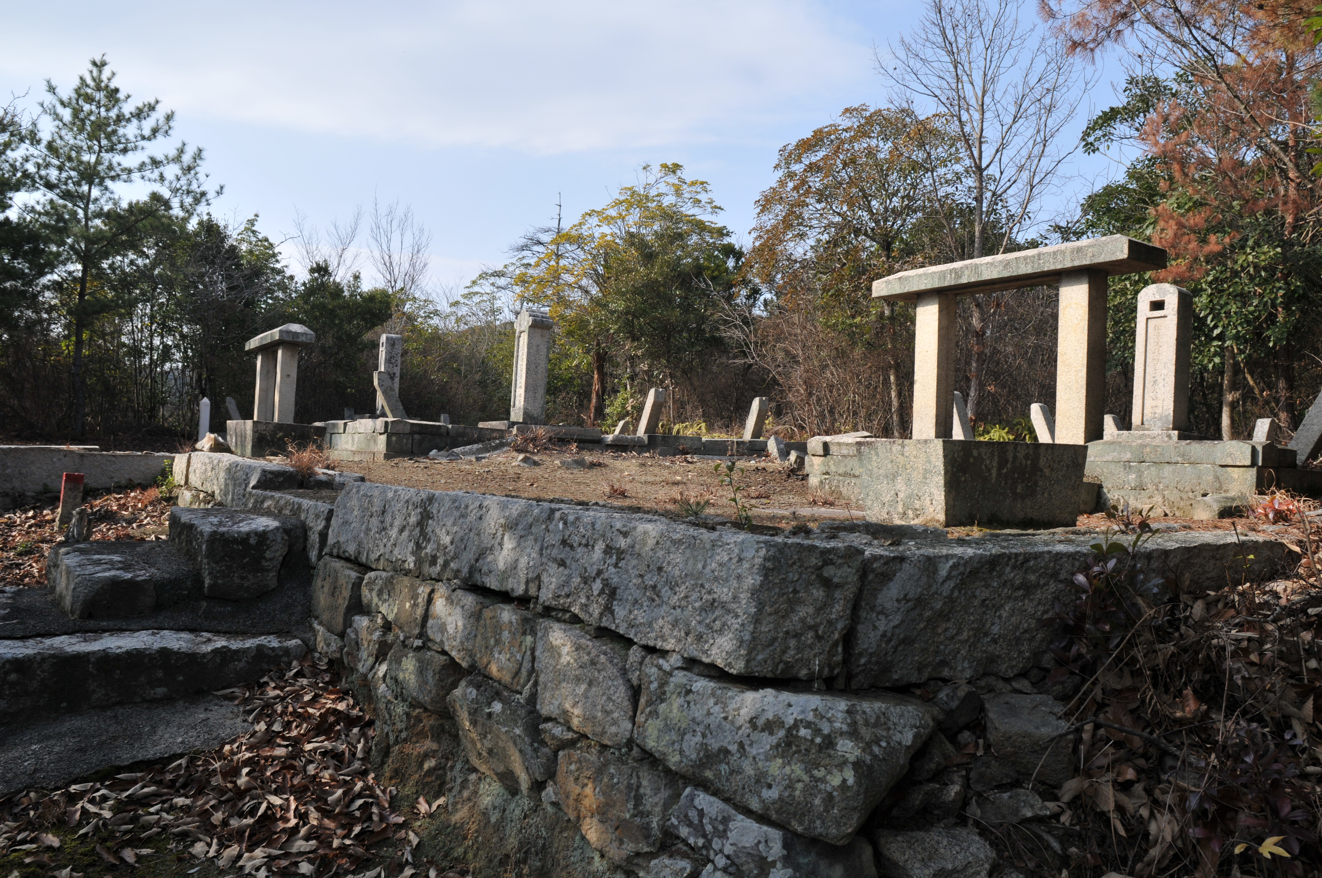 graves of 3rd family head Igi Tadasada, his wife and Shoseiin(mistress of Tadasada)